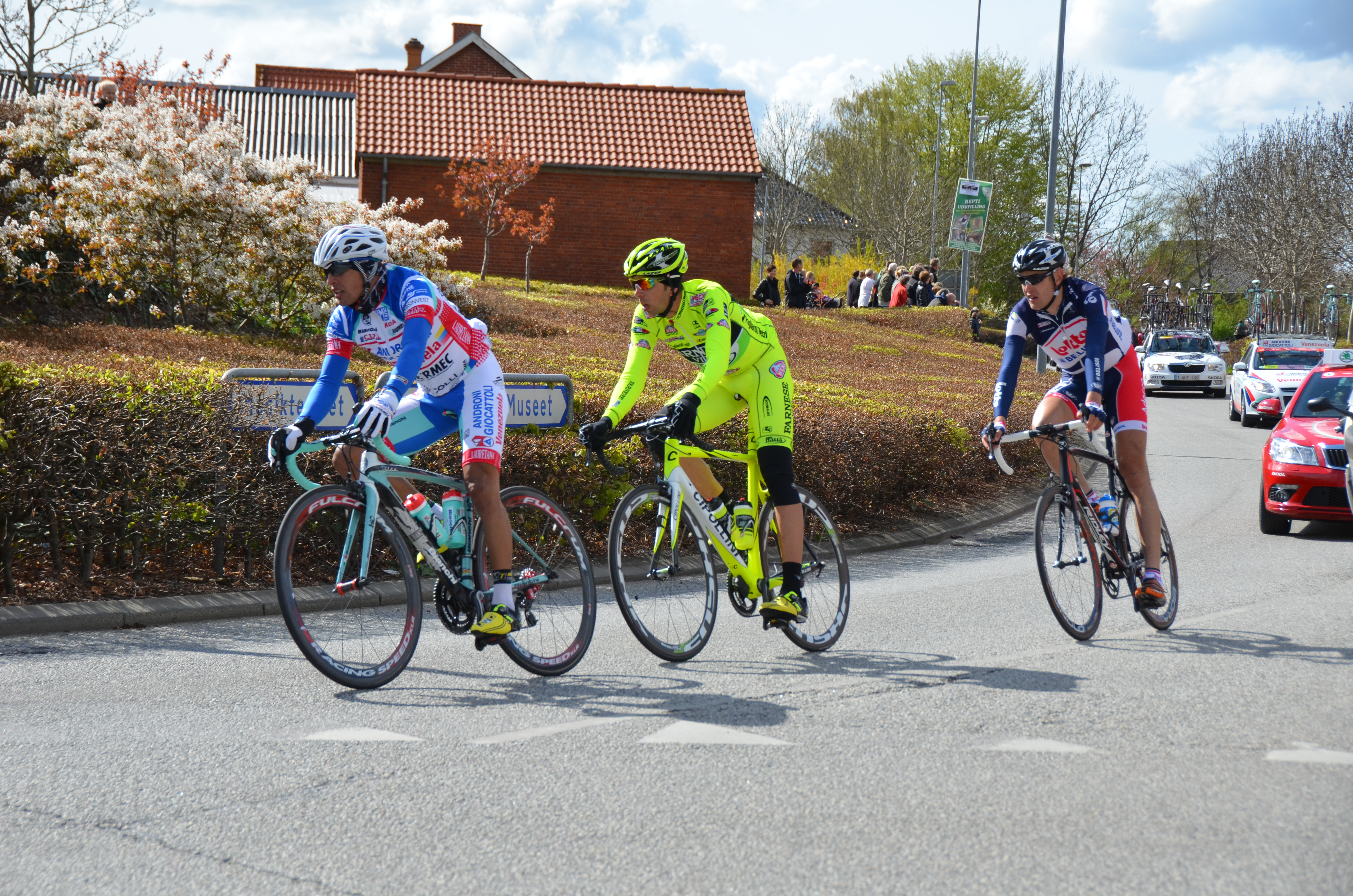 Stage 2 of Giro d' Italia in Holstebro, Denmark. Break with Miguel Rubiano (Androni Giacattoli-Venezuela), Alfredo Balloni (Farnese Vini) and Olivier Kaisen (Lotto Belisol)